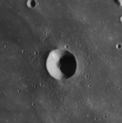 Piazzi Smyth, on the moon.